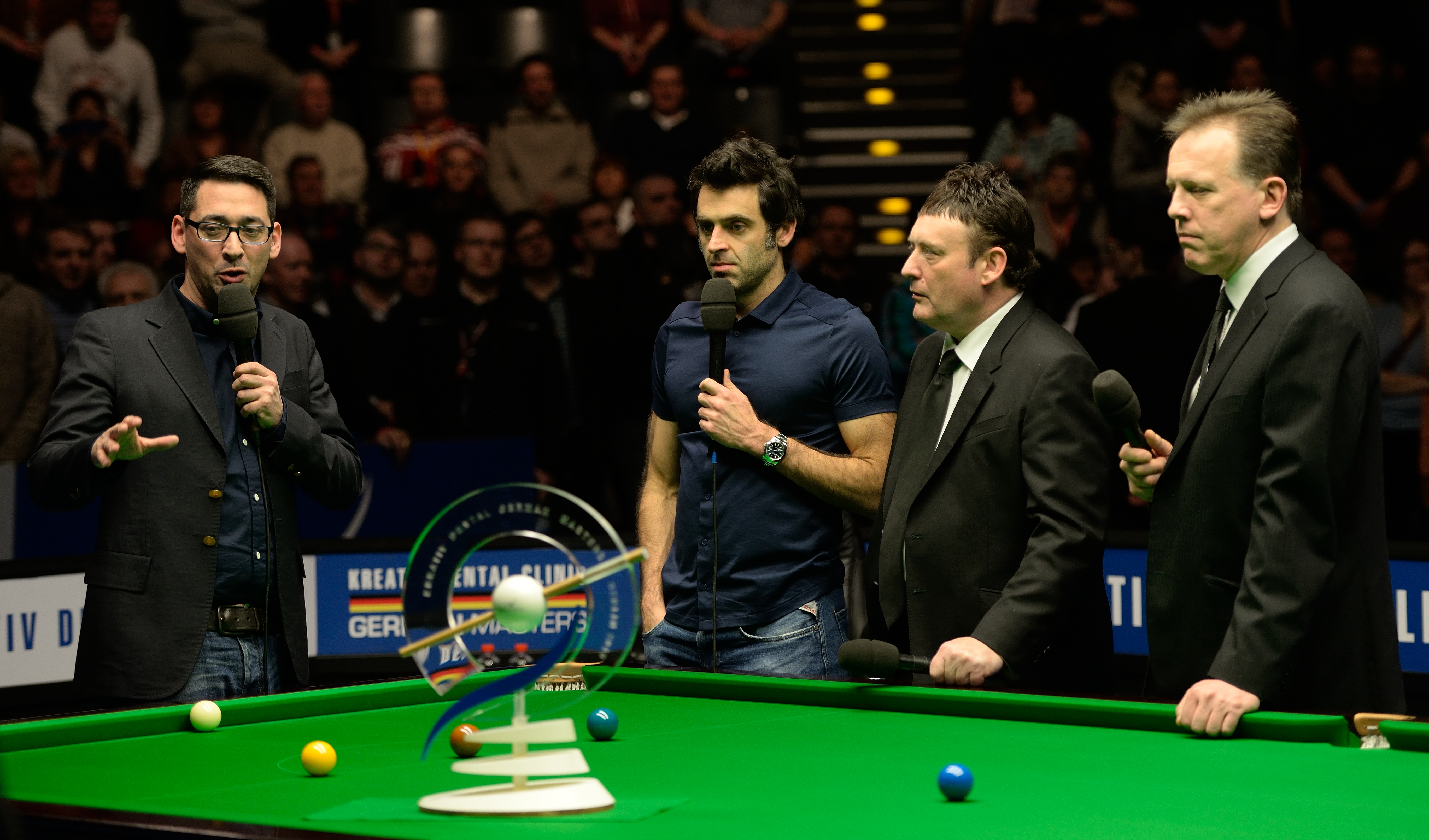 Picture taken in Berlin during the Snooker German Masters in 2015. Jimmy White, Ronnie O’Sullivan, Neal Foulds.